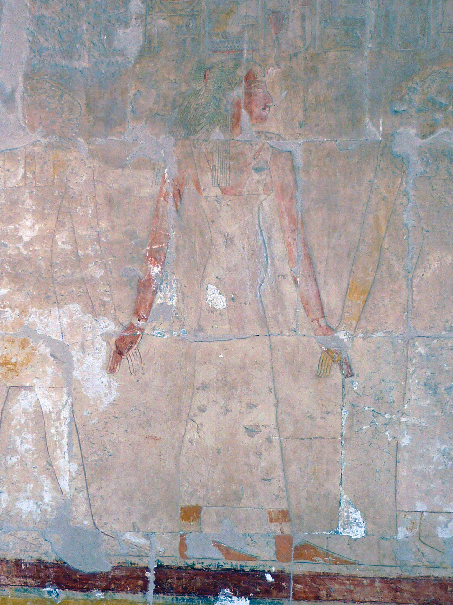 Wall relief, Hatshepsut temple, Deir el-Bahari, Theban Necropolis, Egypt